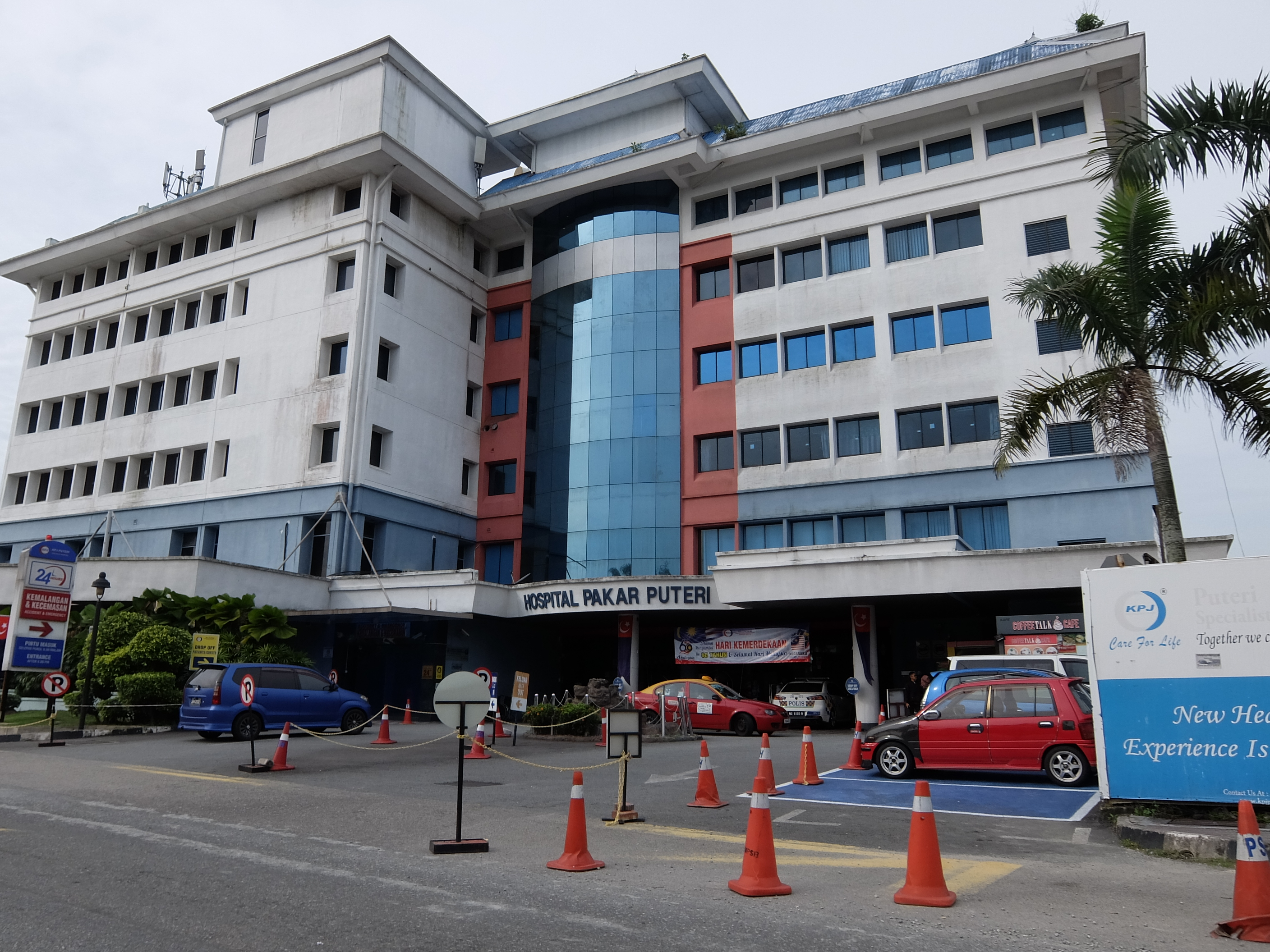 Puteri Specialist Hospital, Johor Bahru, Johor, Malaysia